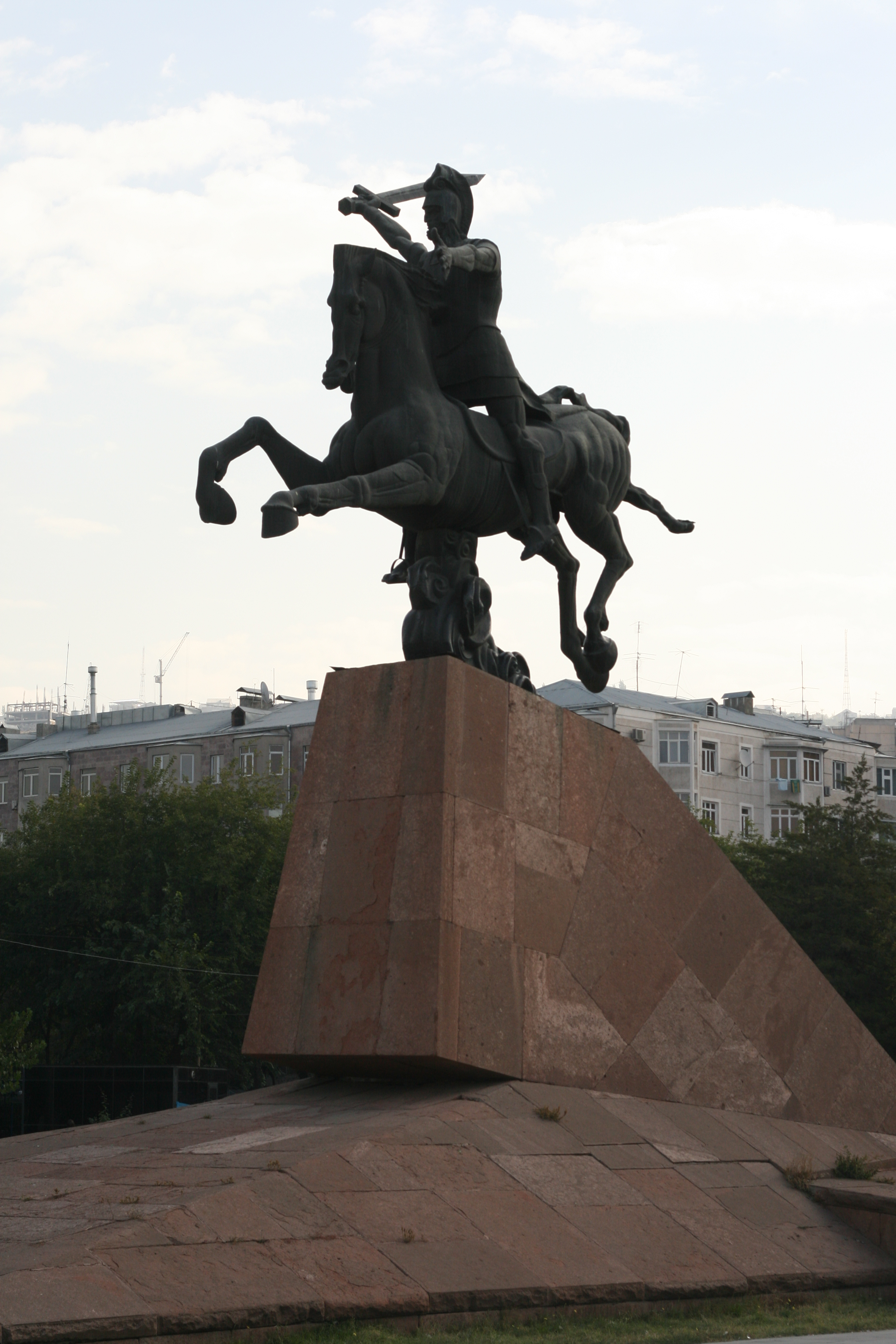 Vartan Mamigonian statue in Yerevan